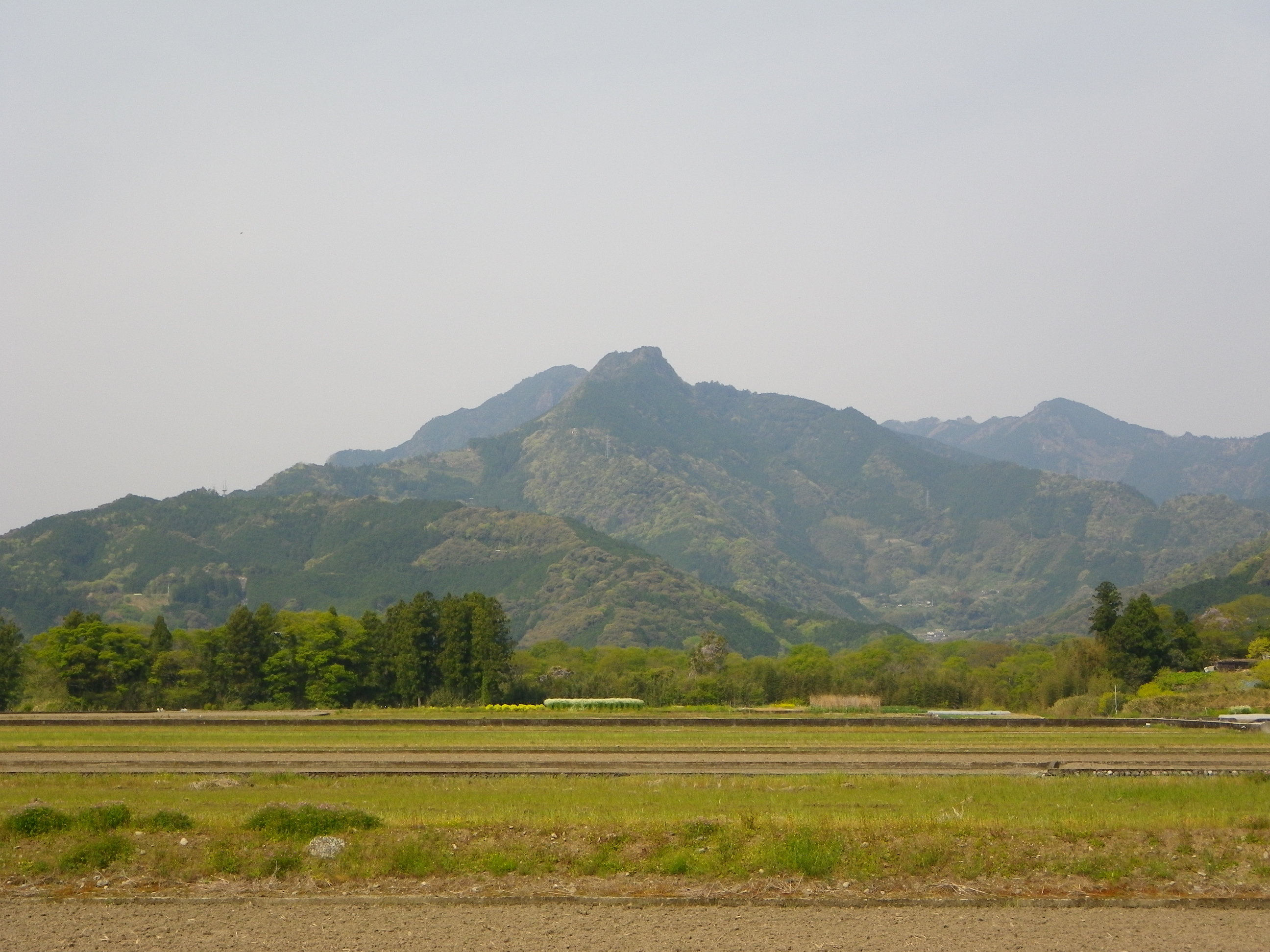 Mount Yokokura (Yokokura-yama) as seen from the east in Ochi.